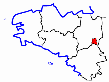 Description: Map for localisazion of cantons of Bretagne region in France Source: made by Hervé Tigier from another large map (1990)